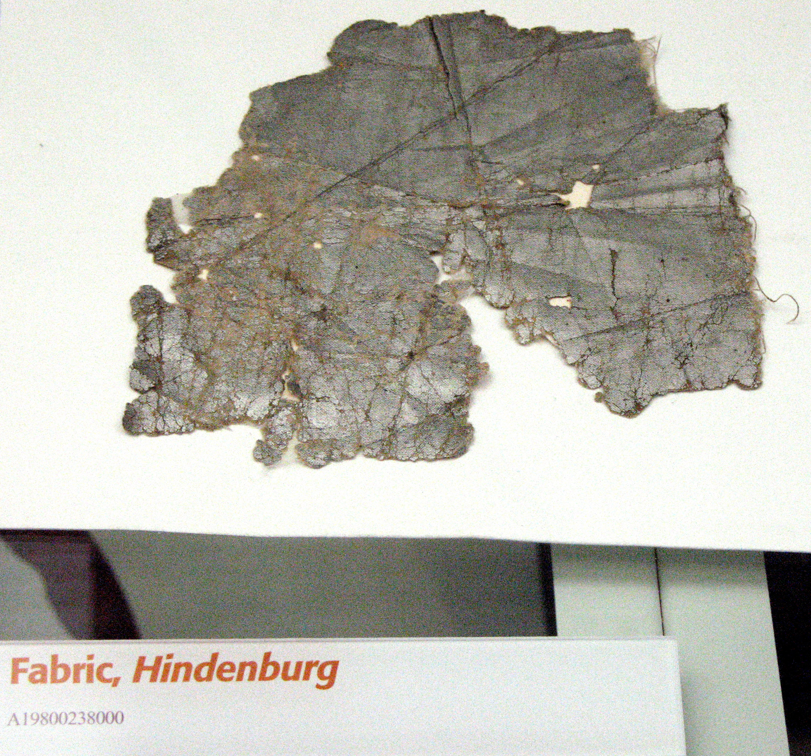 A piece of fabric from the LZ 129 Hindenburg.